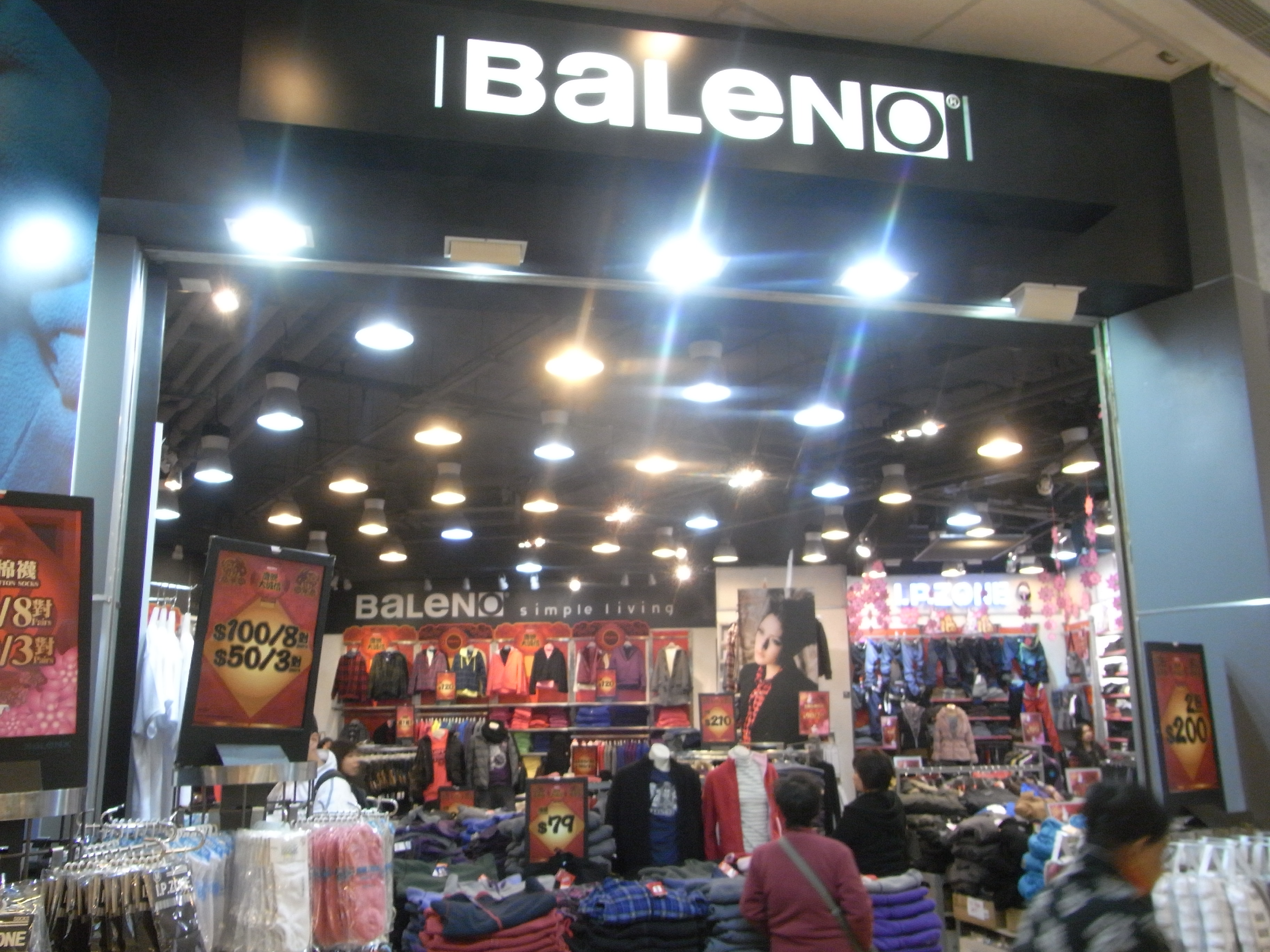 香港島 寶翠園zh:西寶城商鋪